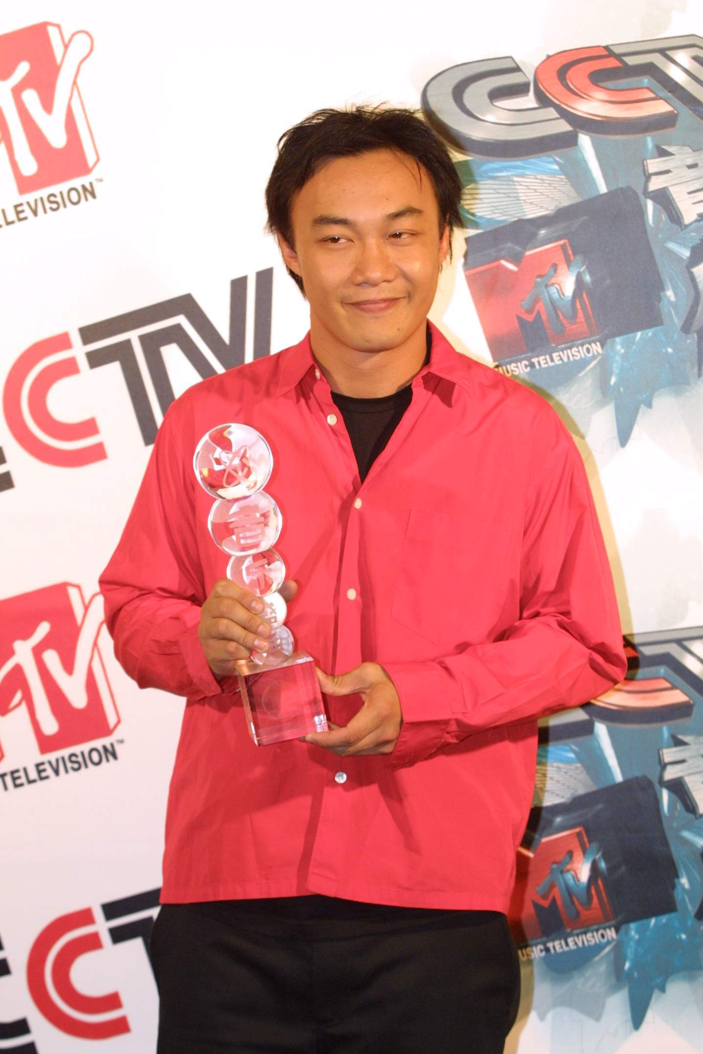 Hong Kong singer and actor Eason Chan attended a CCTV-MTV music award ceremony in Beijing in July 2002.